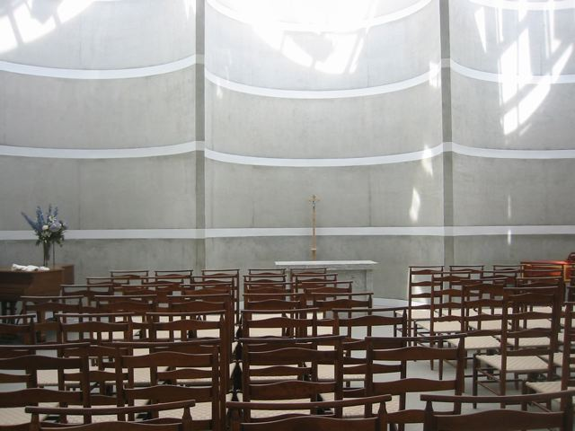 Harvard Business School 1959 Chapel. Photo taken by me.